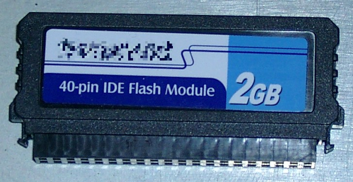 Disk on module. This is a picture of a 2 GB IDE Flash module (DOM).